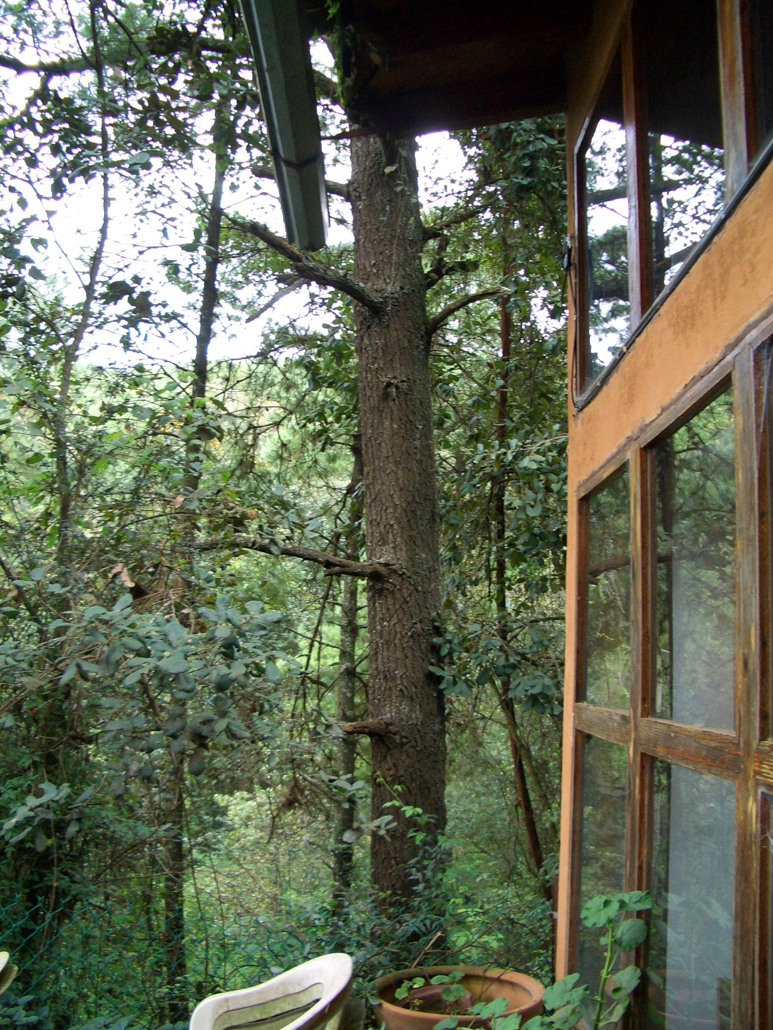 The tree next to María Luisa Puga's house in Zirahuén, Mexico, called "Esteban" in some of her literary work